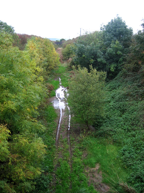 Old railway track, near Barnstone, Nottinghamshire. A deep railway cutting through the NW part of the square. The bridge (centre) carries a farm track across to Station Farm. (No public access to track, photograph taken from bridge on Barnstone to Granby road.)